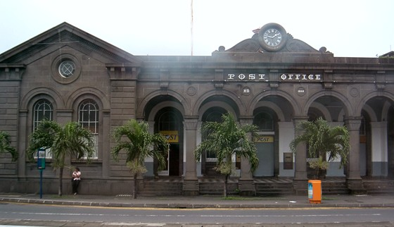 post office in port louis, built in 1868